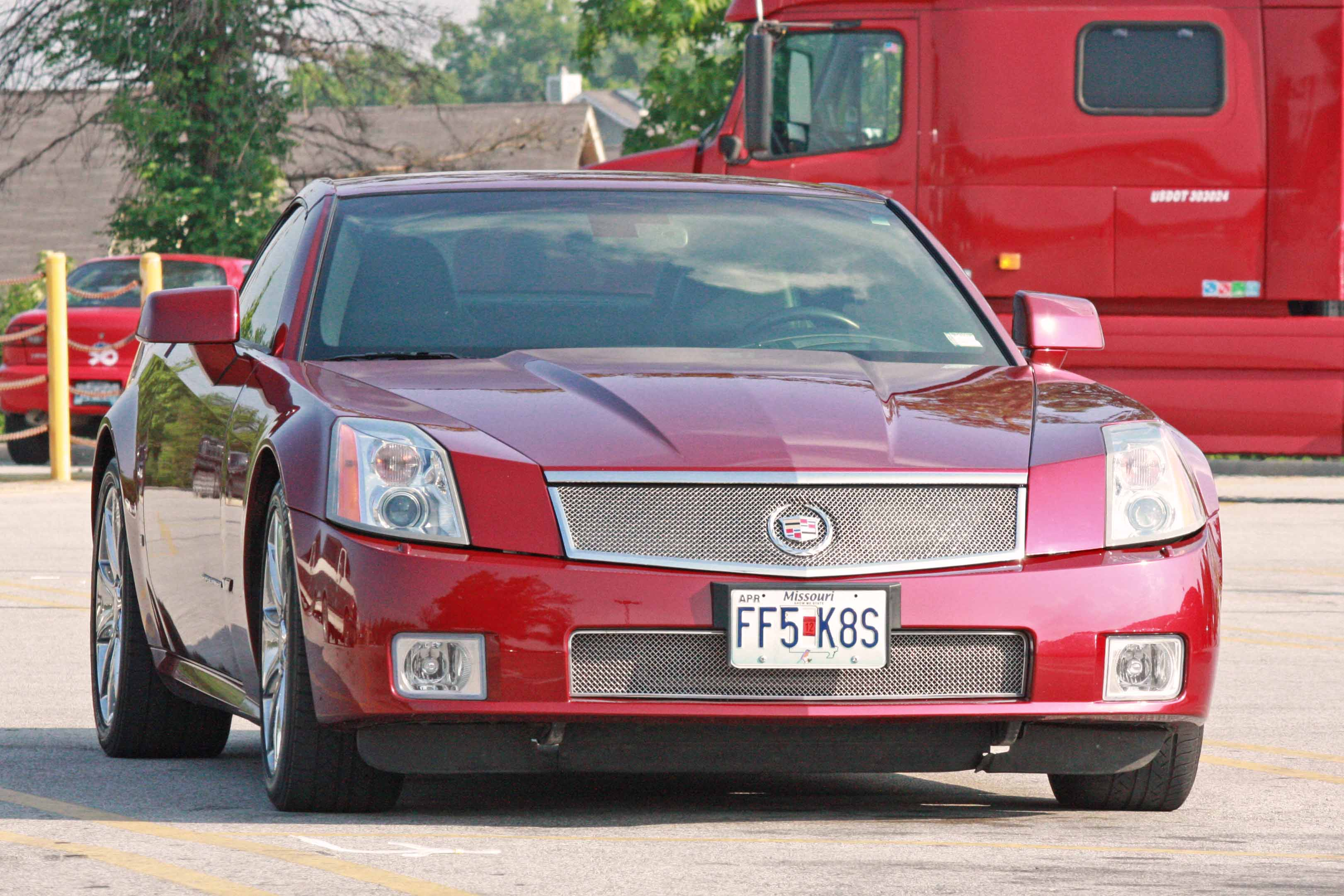 Cadillac XLR